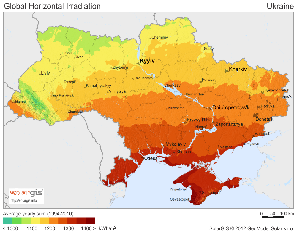 Solar Radiation Map: Ukraine